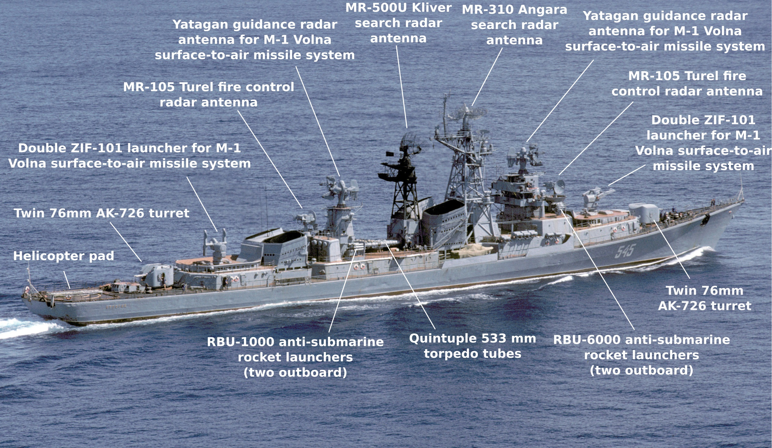 Russian Kashin class destroyer Strogiy.